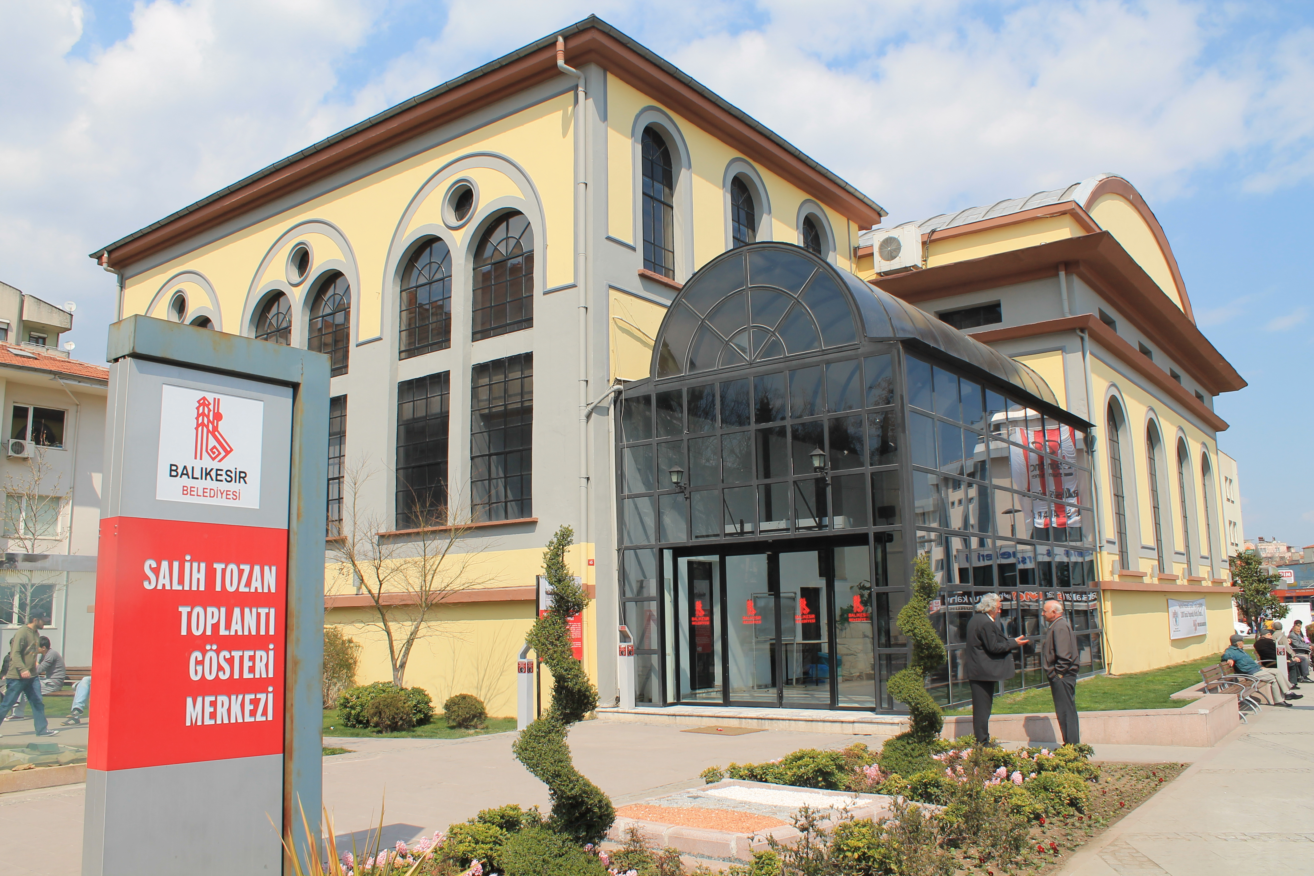 Salih Tozan Community centre, old power plant and generator factoryTürkçe: Salip Tozan Toplantı ve Gösteri merkezi, 1921 yılında jeneratör fabrikası olarak yapılan bina uzun yıllar elektrik santrali olarak kullanılmıştır.